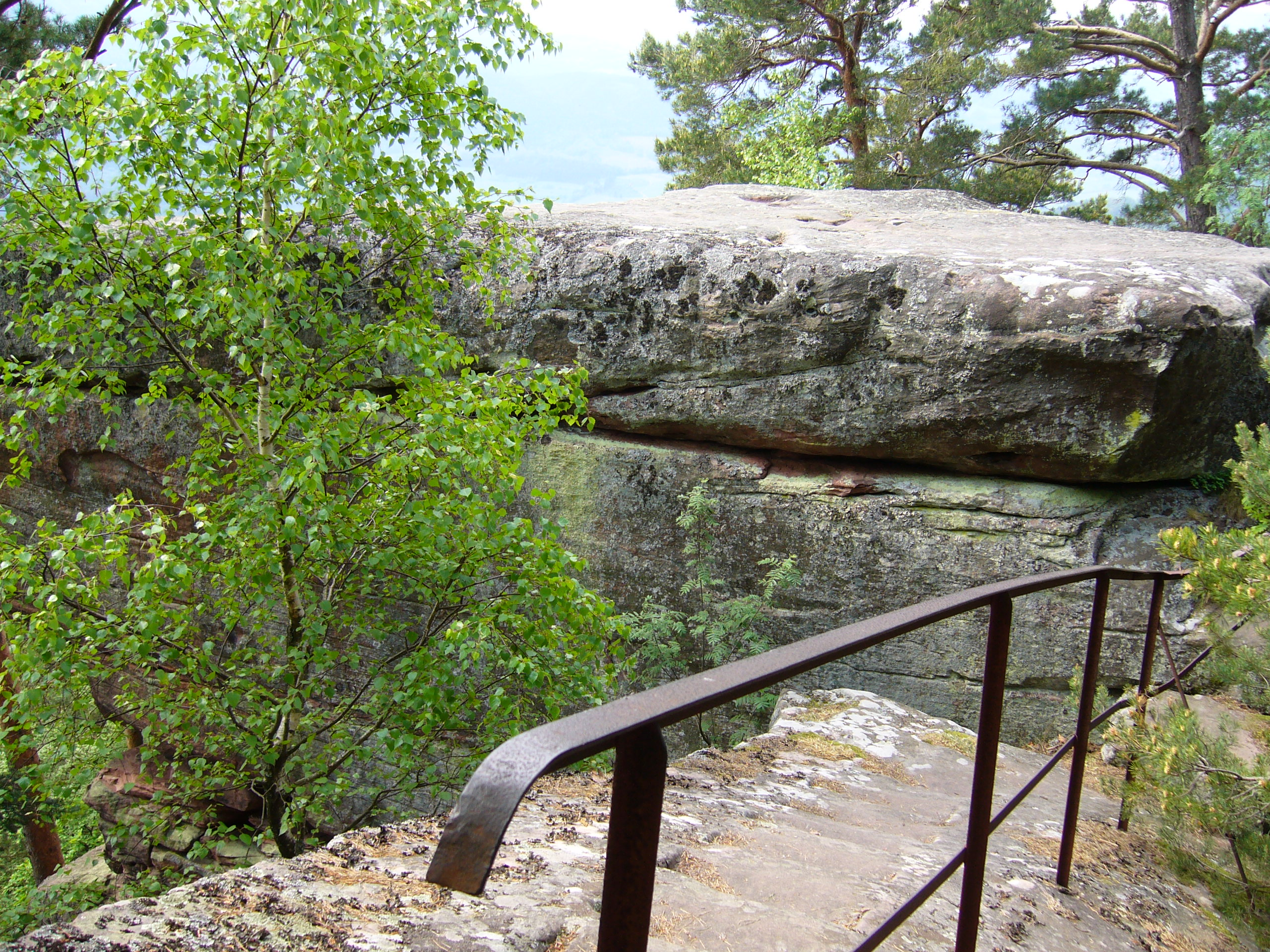 Chalmont 089